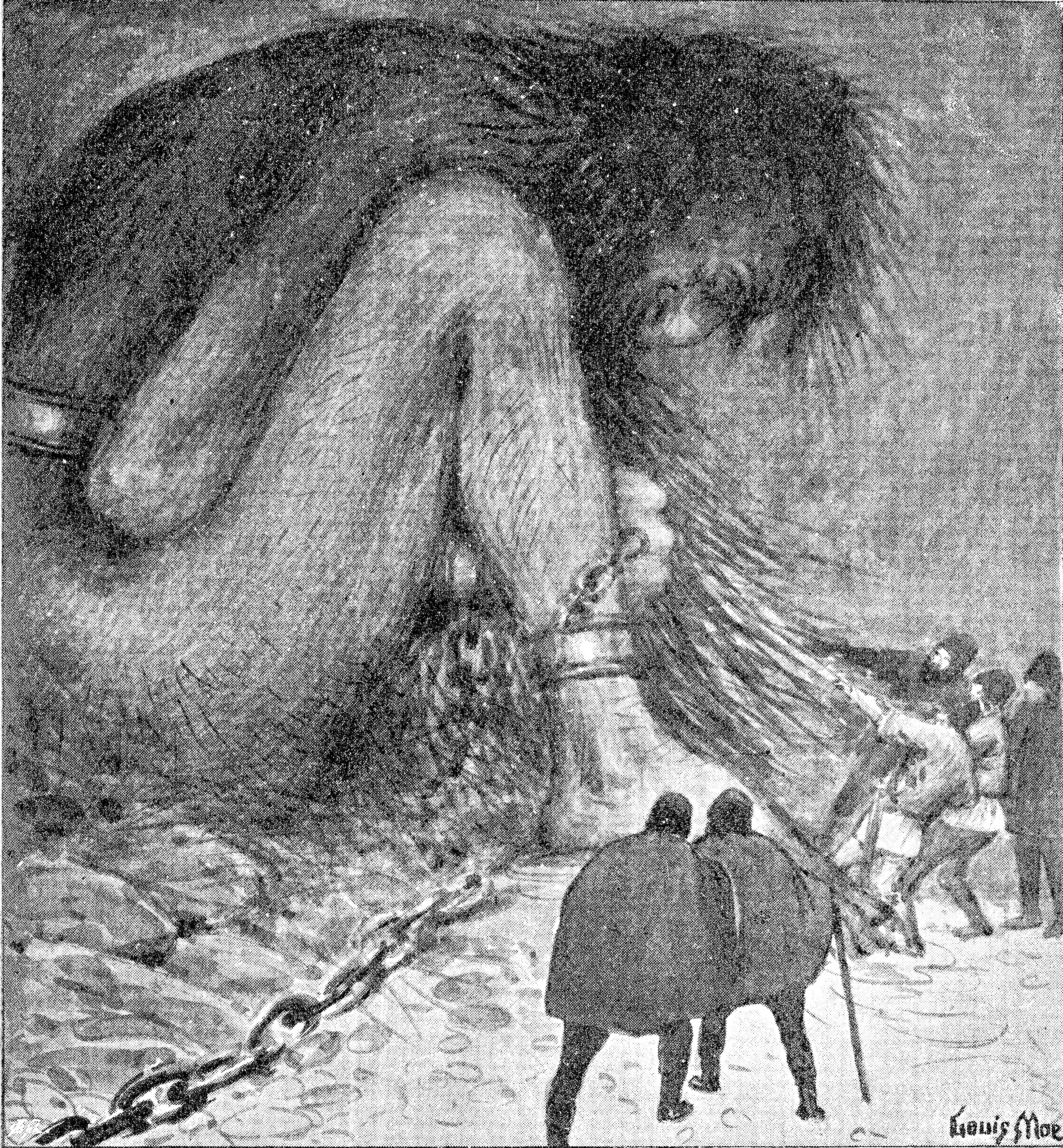 Thorkild hos Udgaardsloke. The giant Utgarthilocus, chained in the cave. The scene is described in Gesta Danorum in the following way: "He crossed this, and approached a cavern which sloped somewhat more steeply. Again, after this, a foul and gloomy room was disclosed to the visitors, wherein they saw Utgarda-Loki, laden hand and foot with enormous chains. Each of his reeking hairs was as large and stiff as a spear of cornel. Thorkill (his companions lending a hand), in order that his deeds might gain more credit, plucked one of these from the chin of Utgarda-Loki, who suffered it. Straightway such a noisome smell reached the bystanders, that they could not breathe without stopping their noses with their mantles." Elton's translation